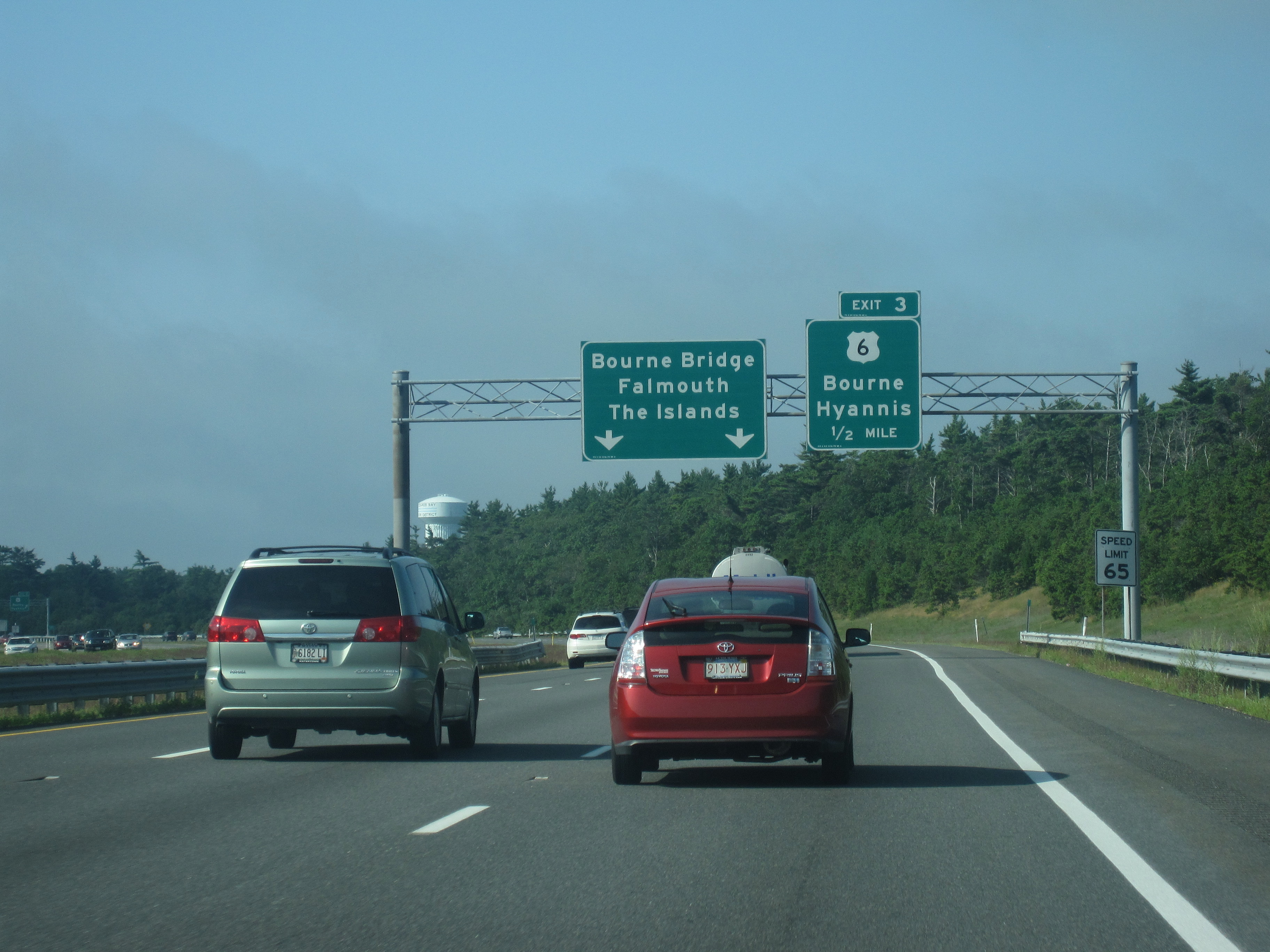 Eastbound Massachusetts Route 25 near its eastern terminus in Bourne